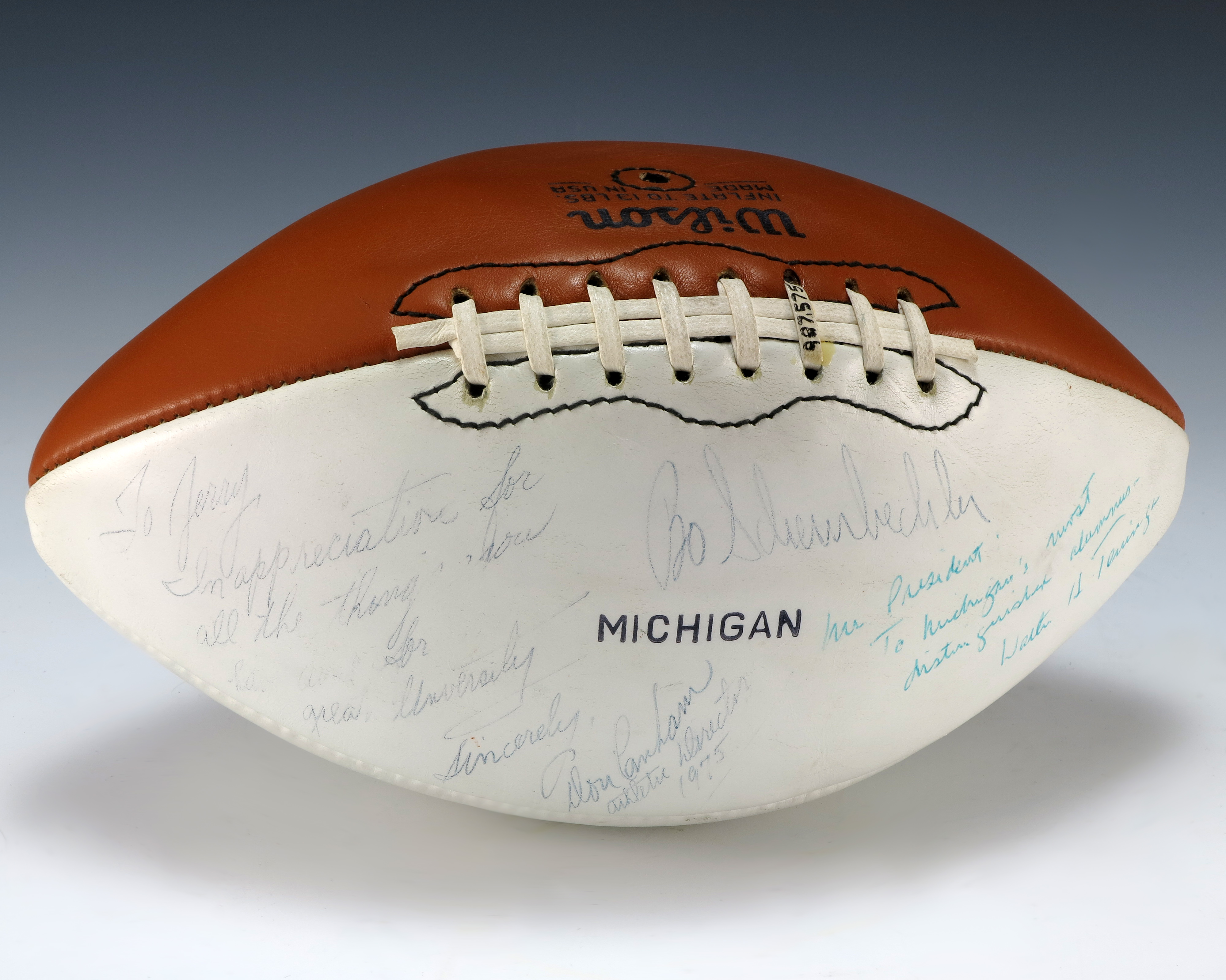 A football signed by Don Canham, Bo Schembechler, and Wally Teninga, all members of the University of Michigan sports department. Also, both Canham and Teninga wrote notes to the President on the football.